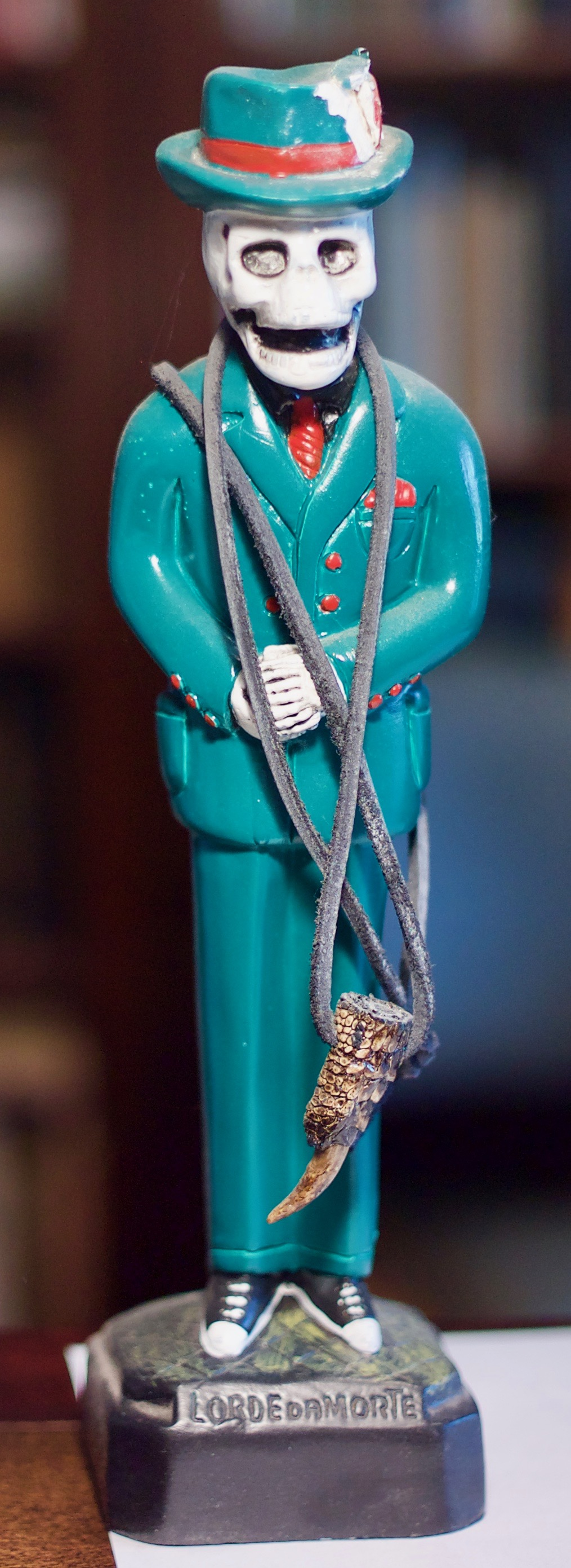 Typical figurine of Bawon Samedi (Baron Samedi), sold since at least year 2000 until today (2017) in New Orleans (French Quarter) at public voodoo store. Hight 30 cm. Collection of forensic biologist Mark Benecke.